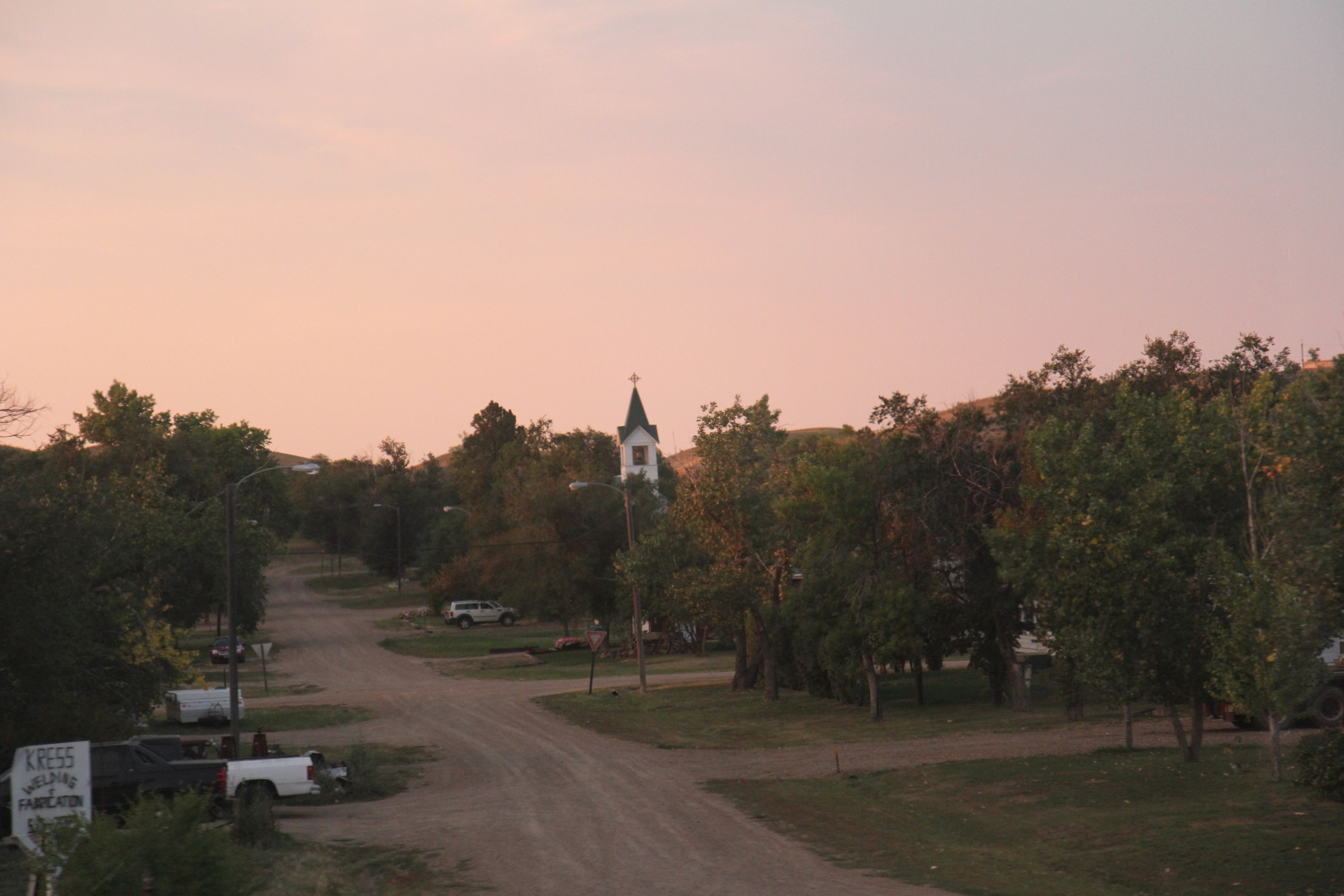 Downtown Nashua, Montana, at sunset from the Empire Builder train. The church in the middle of the photo is Queen of Angels Catholic Church.